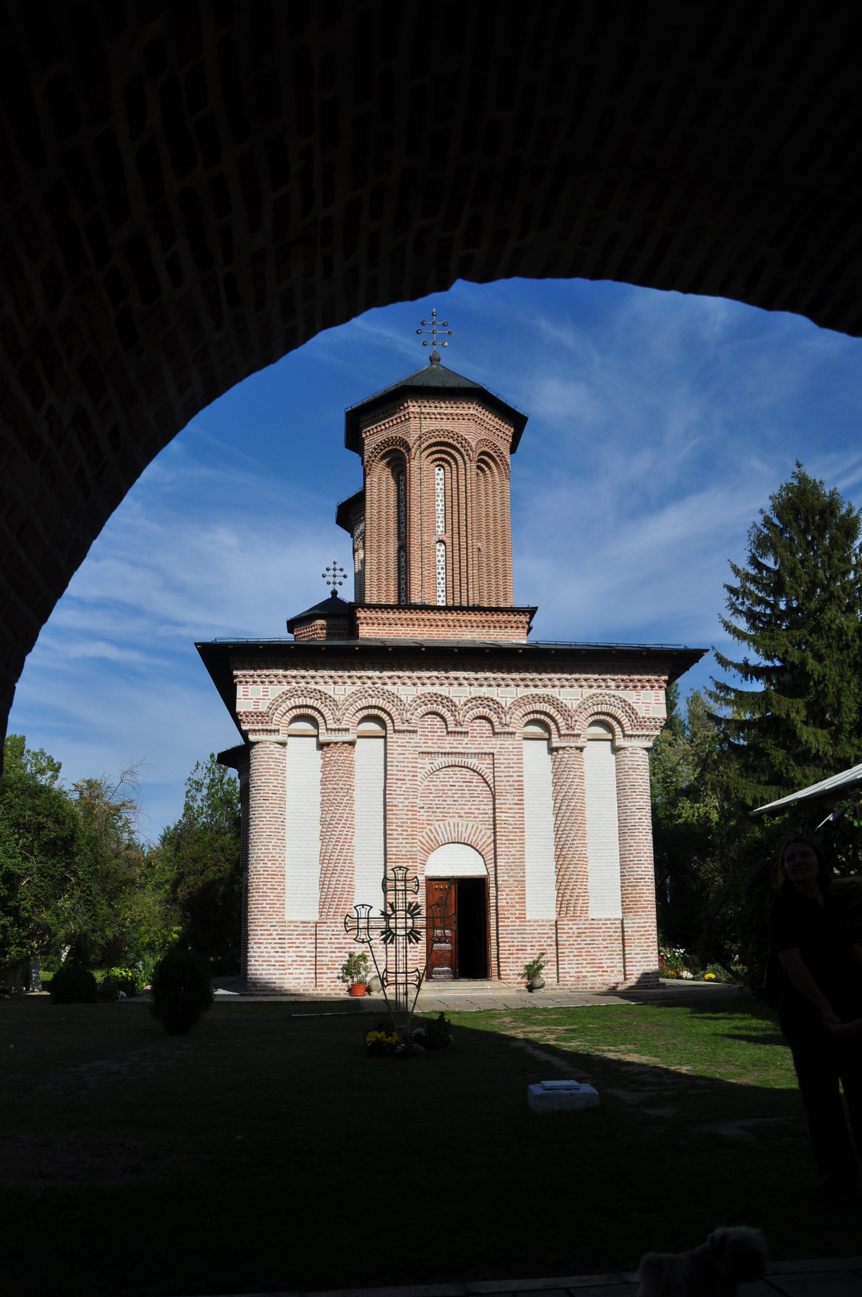 Snagov Monastery Biserica "Intrarea Maicii Domnului în Biserică" "The Presentation" Church [Entrance of the Theotokos into the Temple] construction from 1517, iconography from1563, other interventions 1815, 1904, 1941, 1953, 1966...